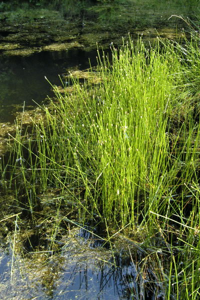 Picture taken in Commanster, Belgian High Ardennes . Species: Eleocharis palustris